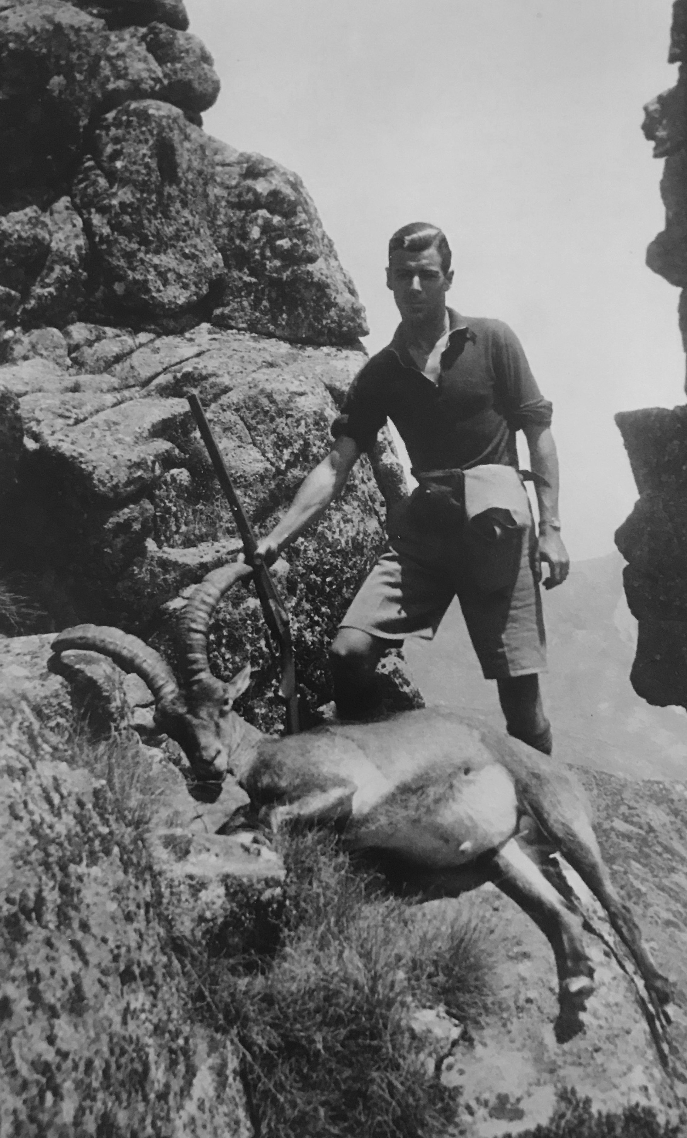 Carlos Alfonso de Mitjans y Fitz-James Stuart, 22nd Count of Teba, posing with a harvested Spanish Ibex (Macho Montés) at the 11th Marquess of Valdueza's hunting estate, "Villarejo de Gredos".